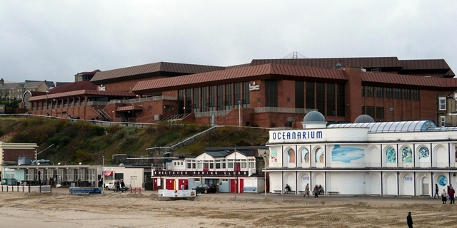 Bournemouth International Centre